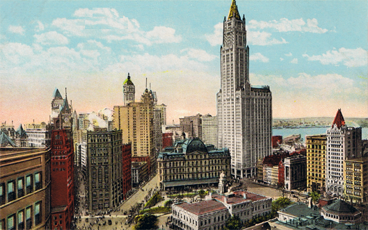 Glossy color postcard of "The Woolworth Building and City Hall Park, New York City". Published by The American Art Publishing Co., New York city, #R-41094. back reads "City Hall Park from the Municipal building, and Park Row looking toward the Woolworth Building and Broadway. City Hall Park covers an area of 8 1/4 acres is the scene of all official ceremonies, from the celebration of Perry's Victory on Lake Erie 1812 to opening of Subway on October 27, 1904. Department of City Government occupying 15 buildings in end around the Park."